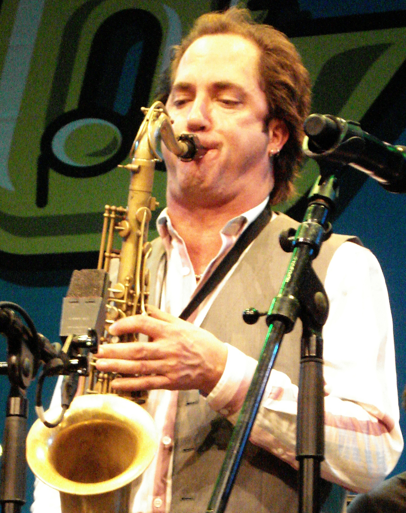 Peter Apfelbaum live at Saalfelden 2009